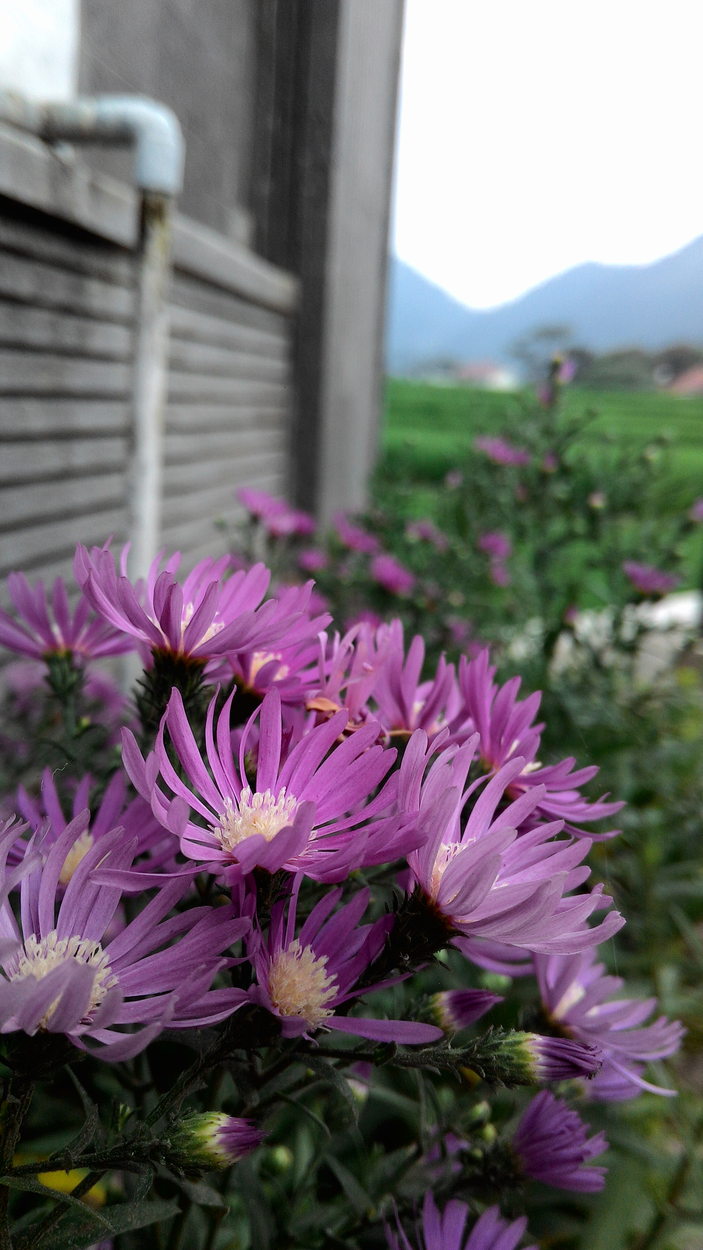 An unidentified Astereae, possibly a Symphyotrichum cultivar.